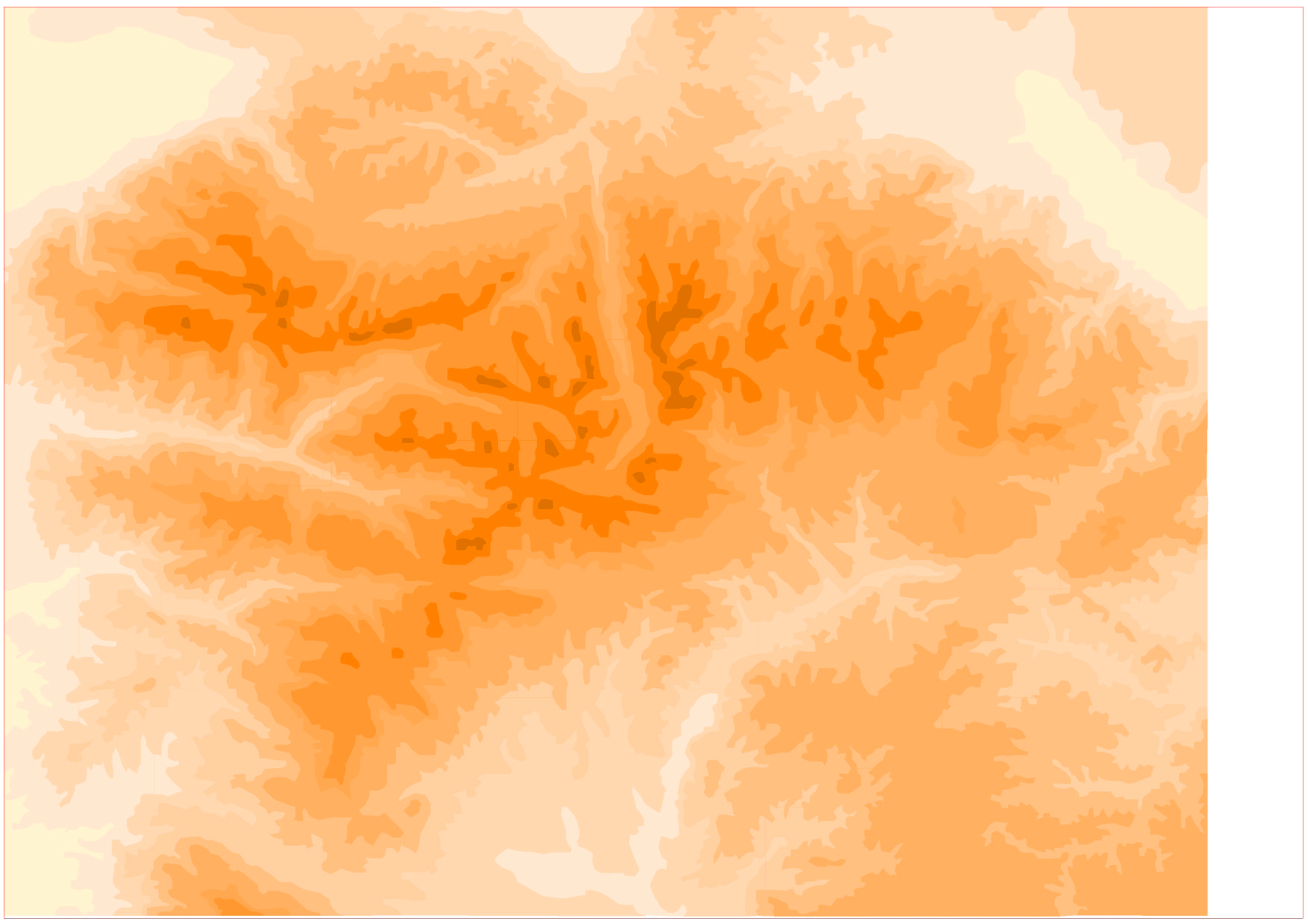 Map of the Relief of Rila